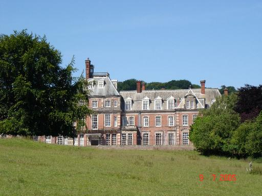 Kinmel Hall. Kinmel Hall in Kinmel Park, St. Geroge